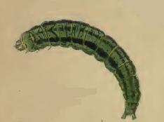 Stainton’s Natural History of the Tineina (1855–1873): Agonopterix nodiflorella older larva